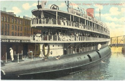 The S.S. Christopher Columbus was a whaleback excursion liner designed by Alexander McDougall and built in 1892-1893 in Superior, Wisconsin by American Steel Barge Company for service to ferry passengers to and from the World's Columbian Exposition, and later placed in general and excursion service to various ports around the Great Lakes. This image is of her at the Goodrich docks in Chicago, Illinois while owned by the Goodrich Transportation Company, and used in general excursion service.